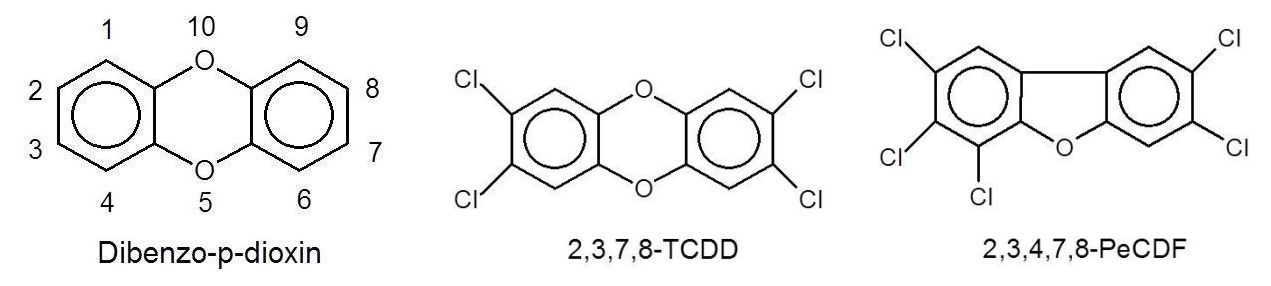 Chemical structures of dibenzo-p-dioxin, 2,3,7,8-tetrachlorodibenzo-p-dioxin and 2,3,4,7,8-pentachlorodibenzofurane